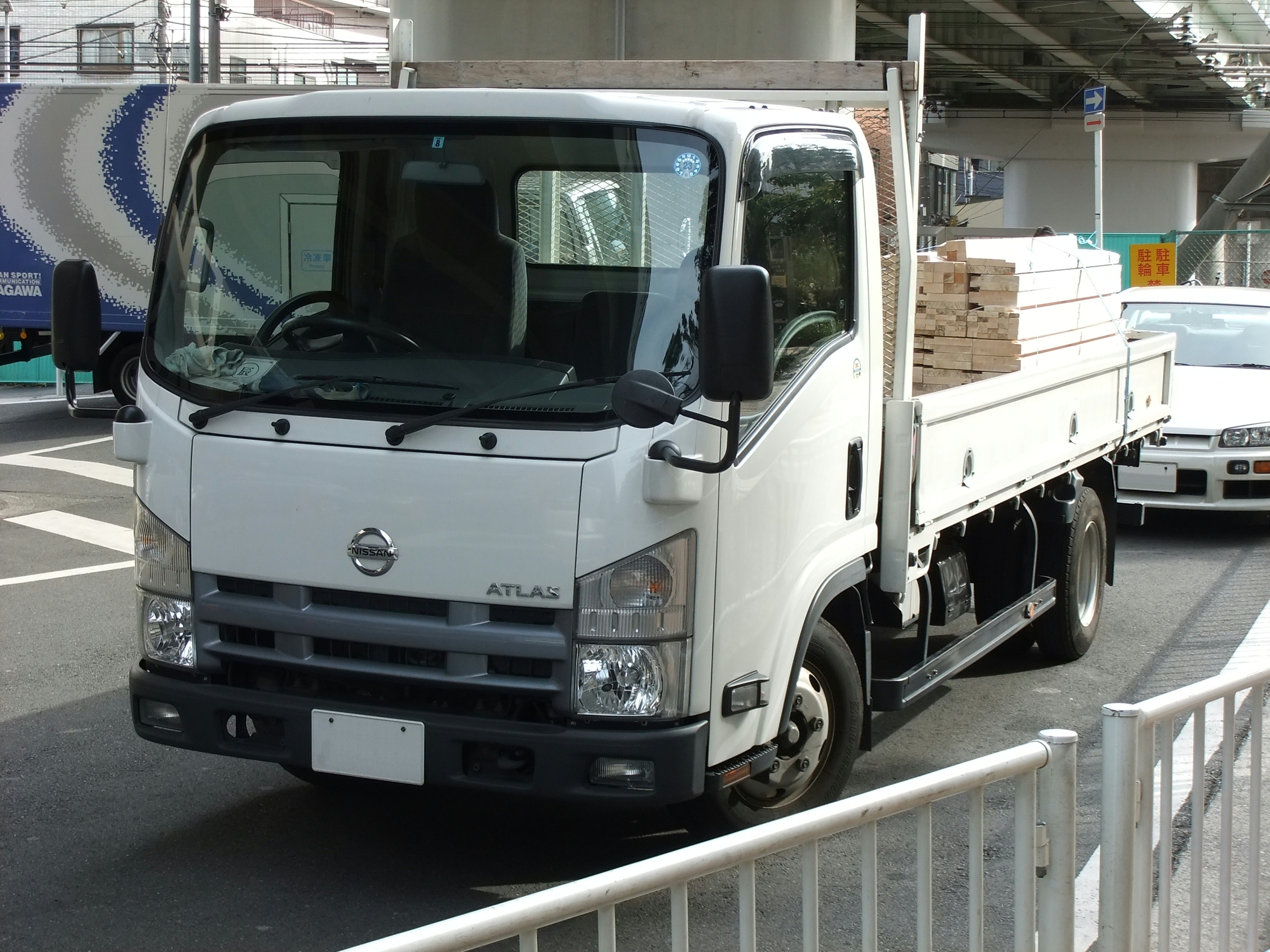 Nissan Motors, Atlas H43